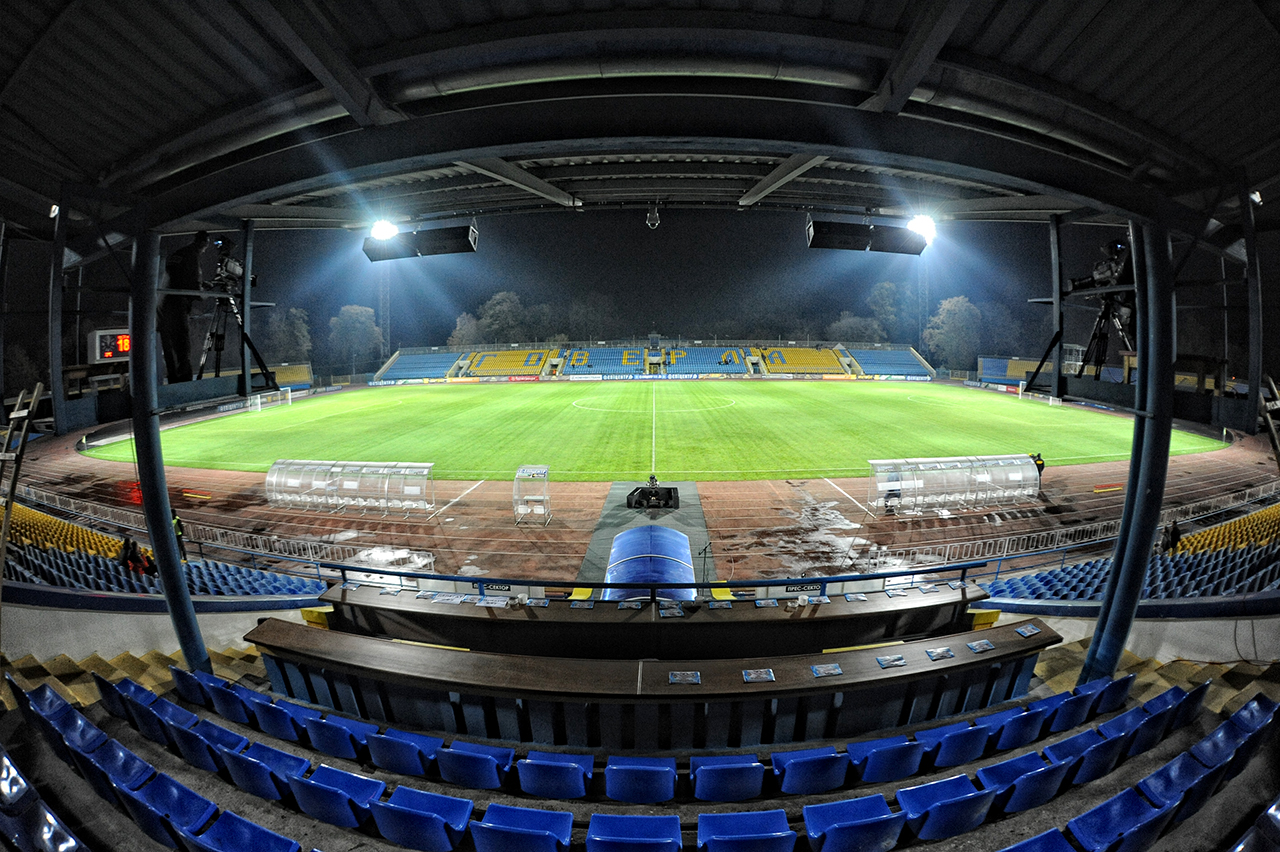 Avanhard Stadium in Uzhhorod, Ukraine